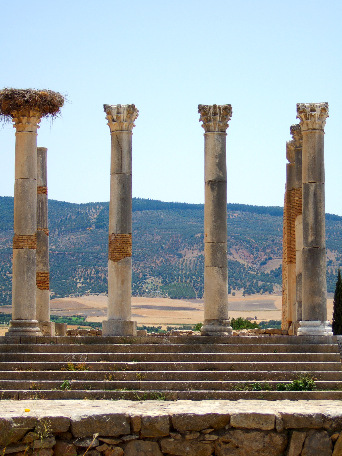 A large nest on a restored Corinthian column of the Capitol building (taken from the basilica). Fuji F11 Camera at ISO 80.